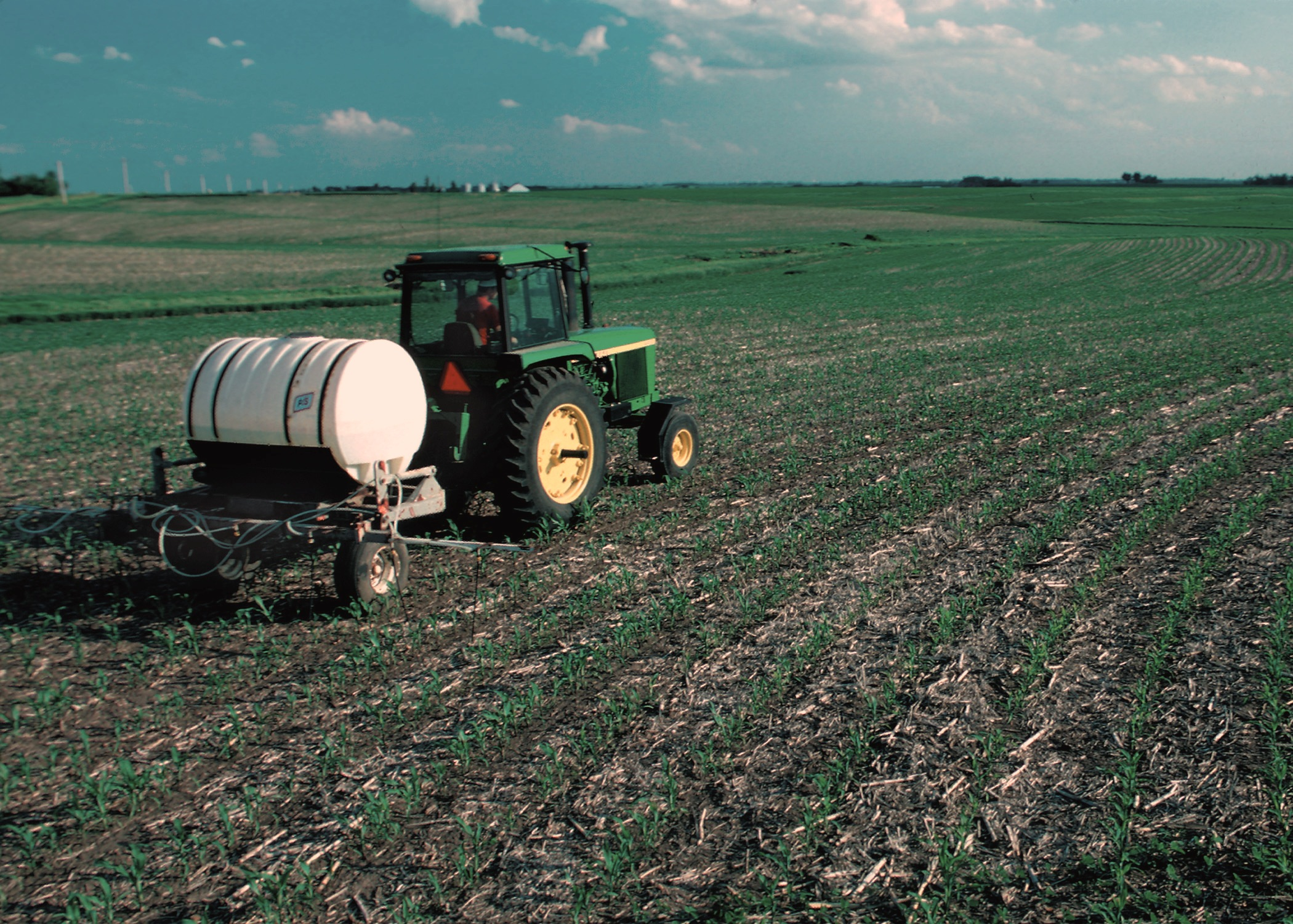 View of nitrogen fertilizer being applied to growing corn (maize) in a contoured, no-tilled field in Hardin County, Iowa. Applying smaller amounts of nitrogen several times over the growing season rather than all at once at or before planting helps the plants use the nitrogen rather than have it enter adjacent streams (i.e. create nonpoint source pollution.)